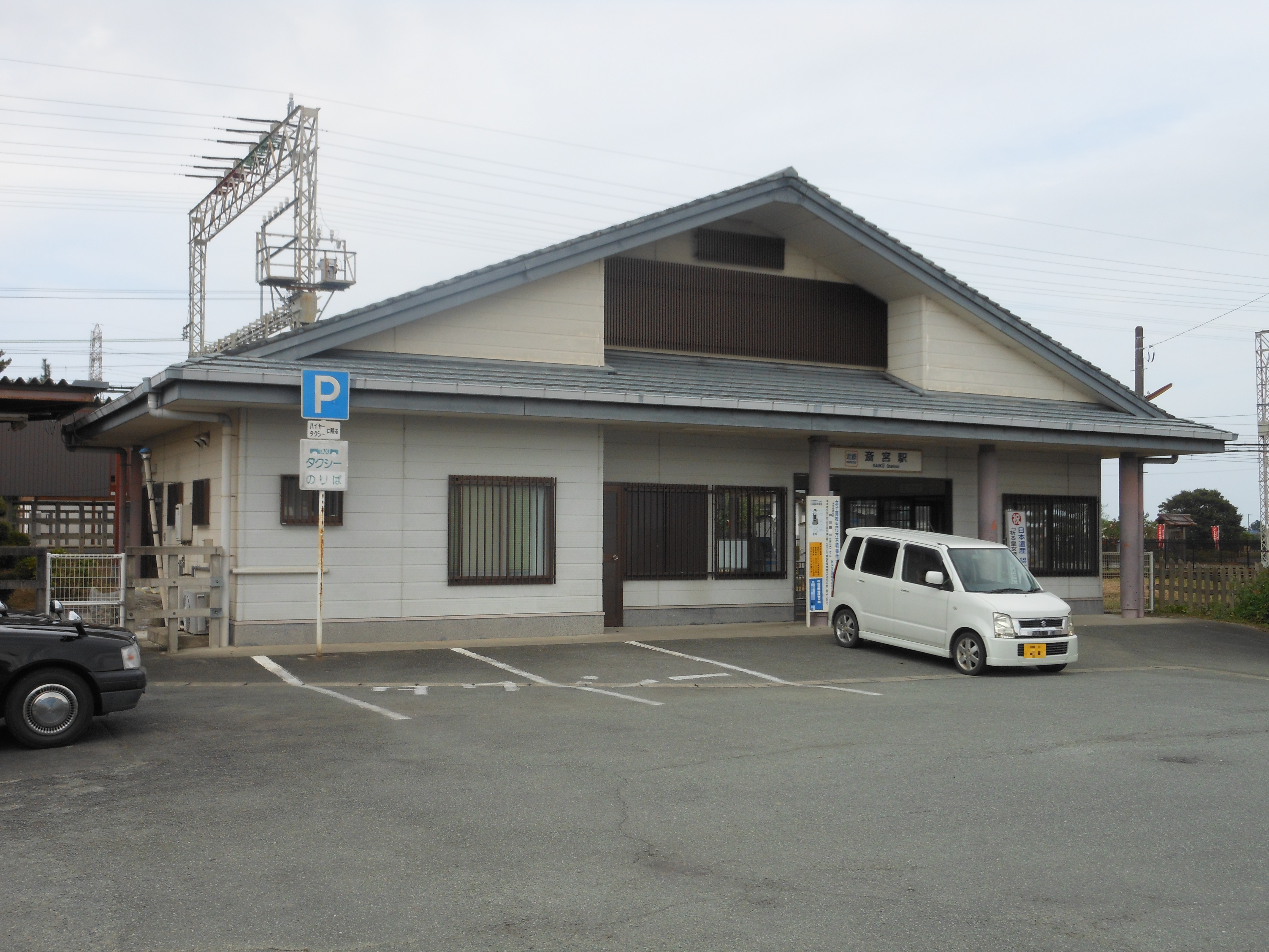 This is the south exit of Saiku station in Meiwa, Mie, Japan.